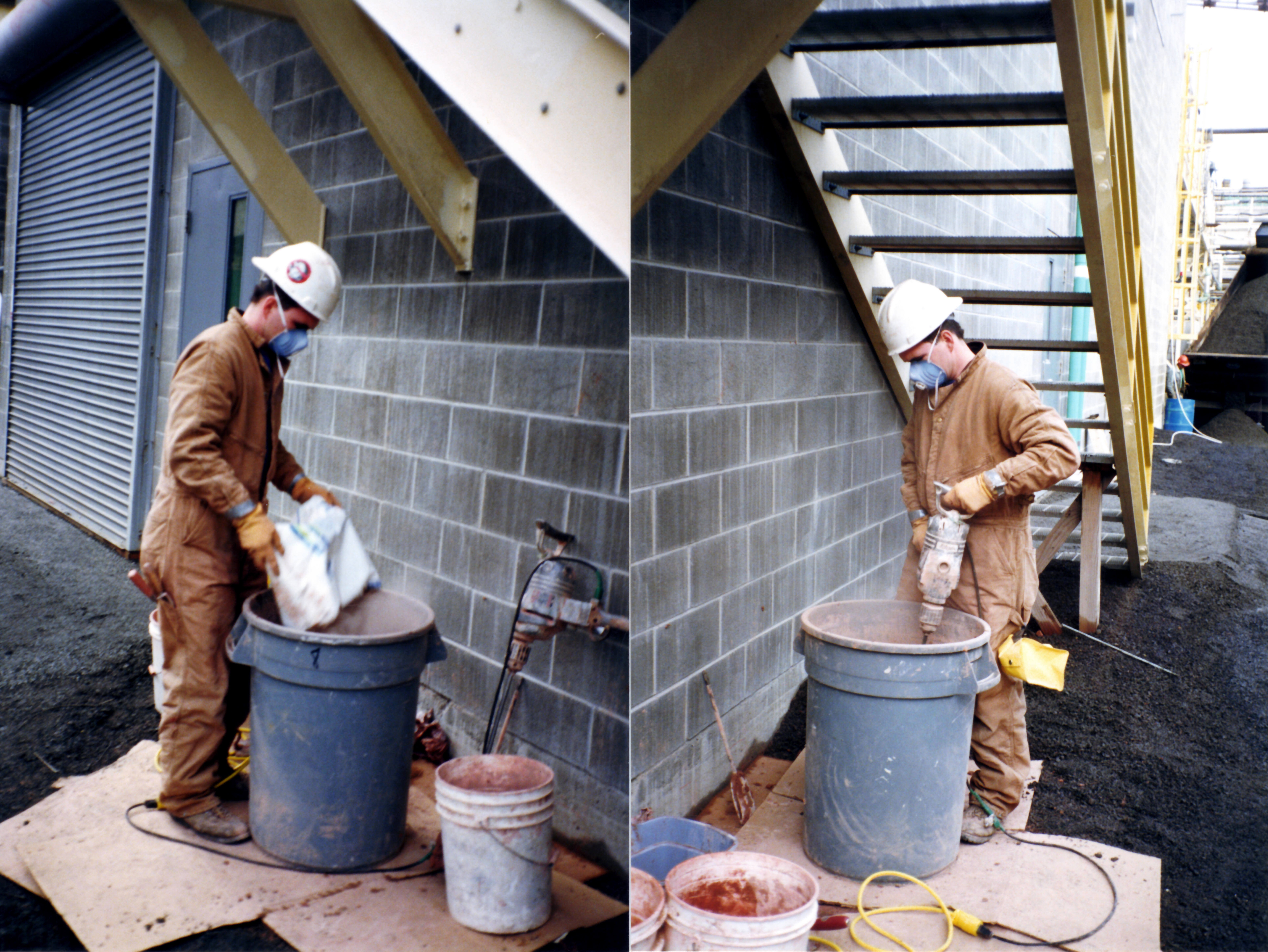 Firestop mortar being mixed at a Pulp and Paper Mill in Washington State, USA.